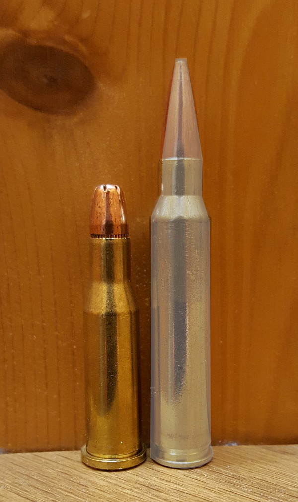 .218 Bee compared to .223 Remington